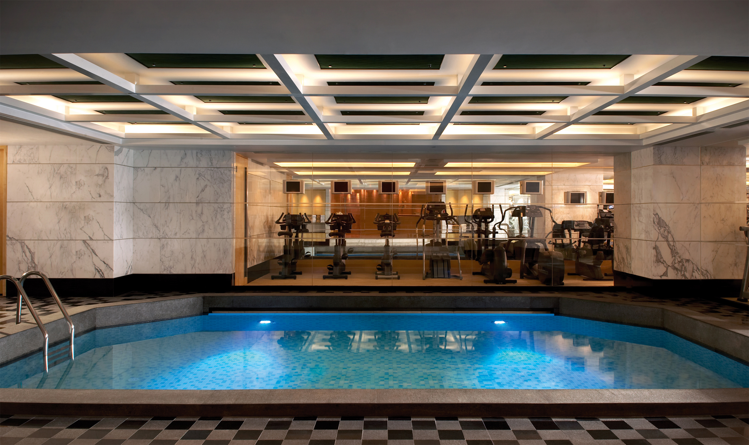 Kowloon Shangri-La Health Club